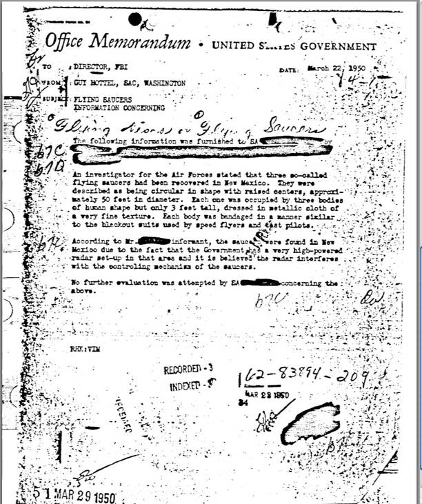 Flying saucer memorandum.